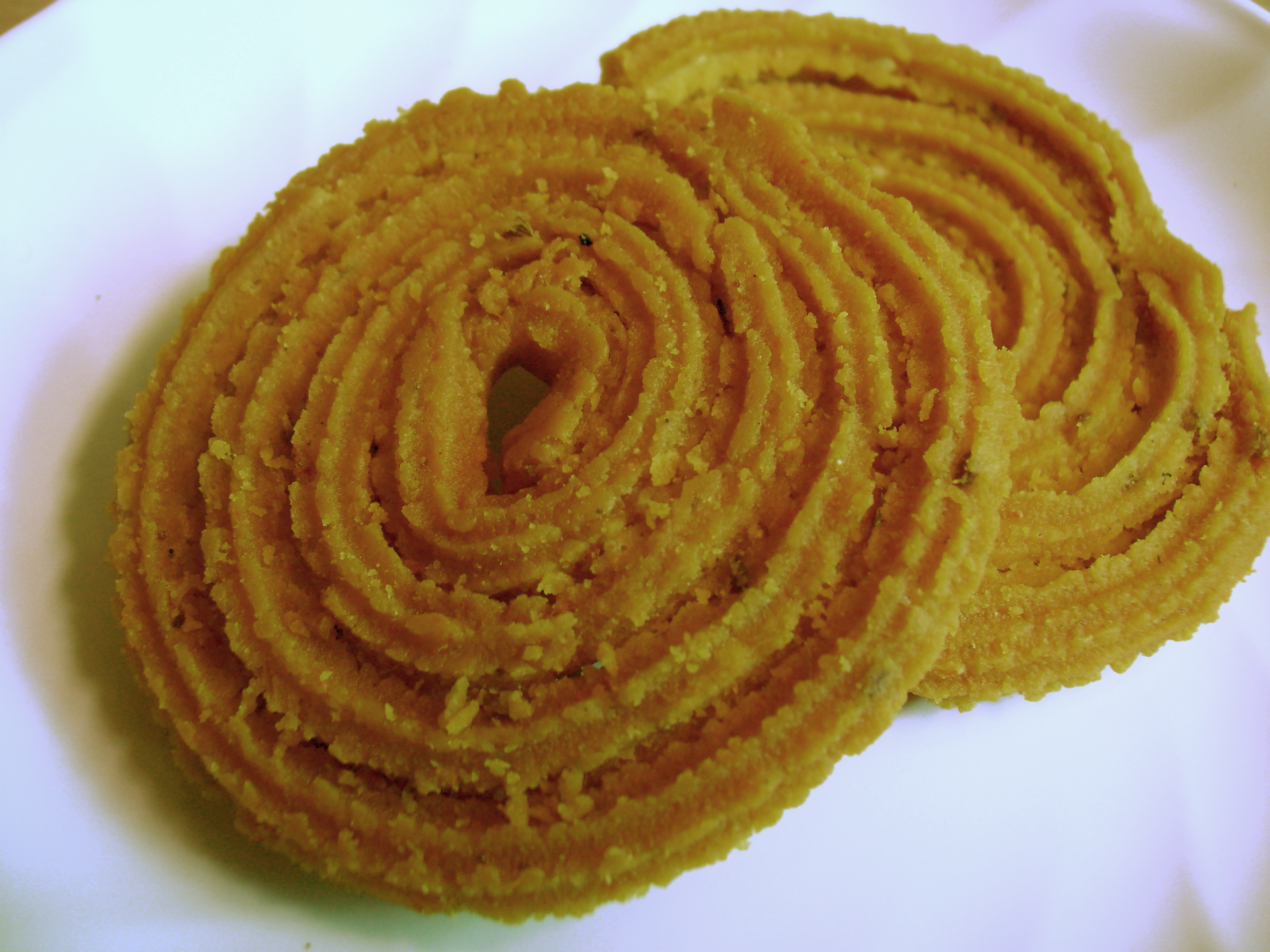 Photograph of 'Chakali' - a snack from Maharashtra.